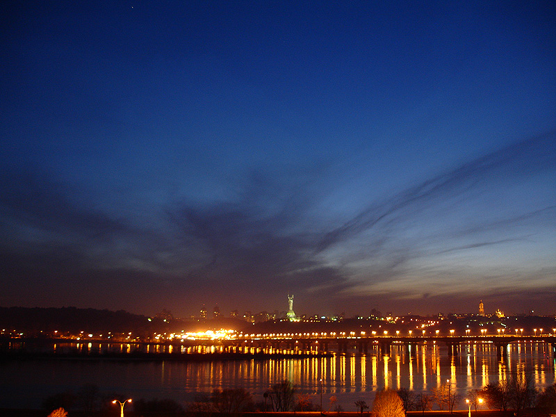 Kyiv, the capital of Ukraine, at night